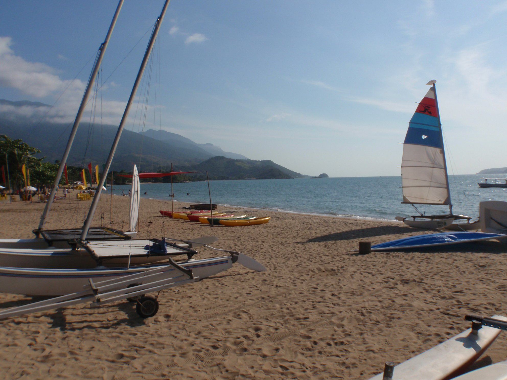 Ilhabela.PerequeBeach